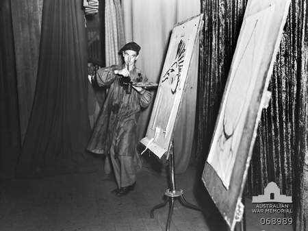 CORPORAL NORMAN FREDERICK HETHERINGTON (NX131018), CARTOONIST OF THE 2ND DIVISION CONCERT PARTY DOING HIS "LIGHTNING SKETCHING" ACT DURING A CONCERT THAT WAS STAGED IN THE 19TH INFANTRY BRIGADE AREA, WONDECLA, ATHERTON TABLELANDS, FAR NORTH QUEENSLAND. THE PHOTOGRAPH WAS TAKEN BY UNKNOWN ARMY PHOTOGRAPHER ON 3 AUGUST 1944.